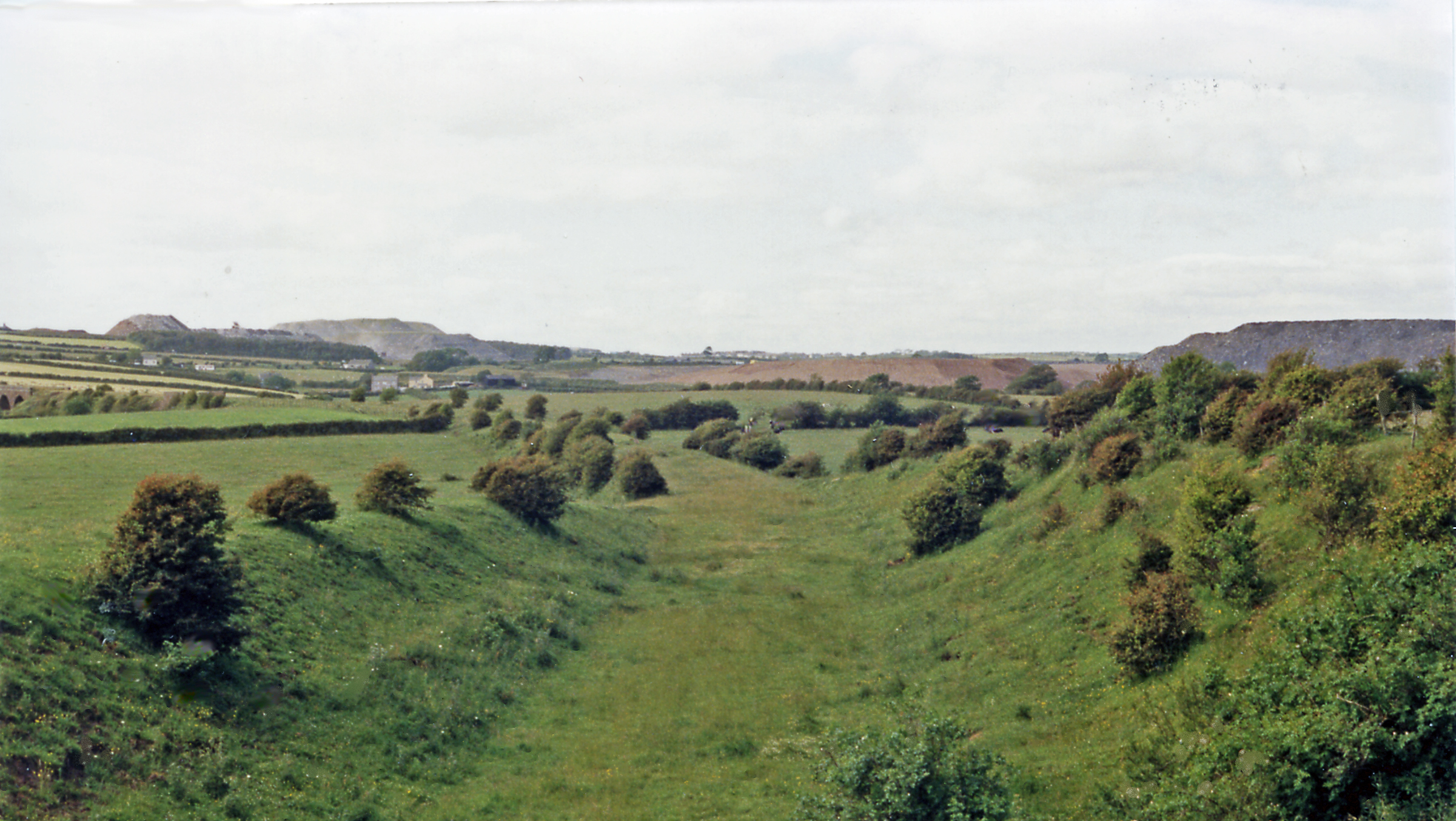 Near site of Cleator Moor West station, 1986, Believed to be a northward view along the course of the former Cleator & Workington Junction line, which was built, along with various other lines, for transporting haematite iron ore from the rich mines in the area to the iron- and steel-works in the Workington and Harrington Disticts. For 100 years from the 1860s this area, nowadays almost reclaimed by Nature, had been heavily industrialised and honeycombed by railways: the remnants of spoil-heaps from the iron and coal mines can be seen on the horizon. [I was not entirely sure exactly where I was when I took this photograph, nor am I very familiar with the complexity of the former railways of West Cumberland, so would welcome further discussion about it!]